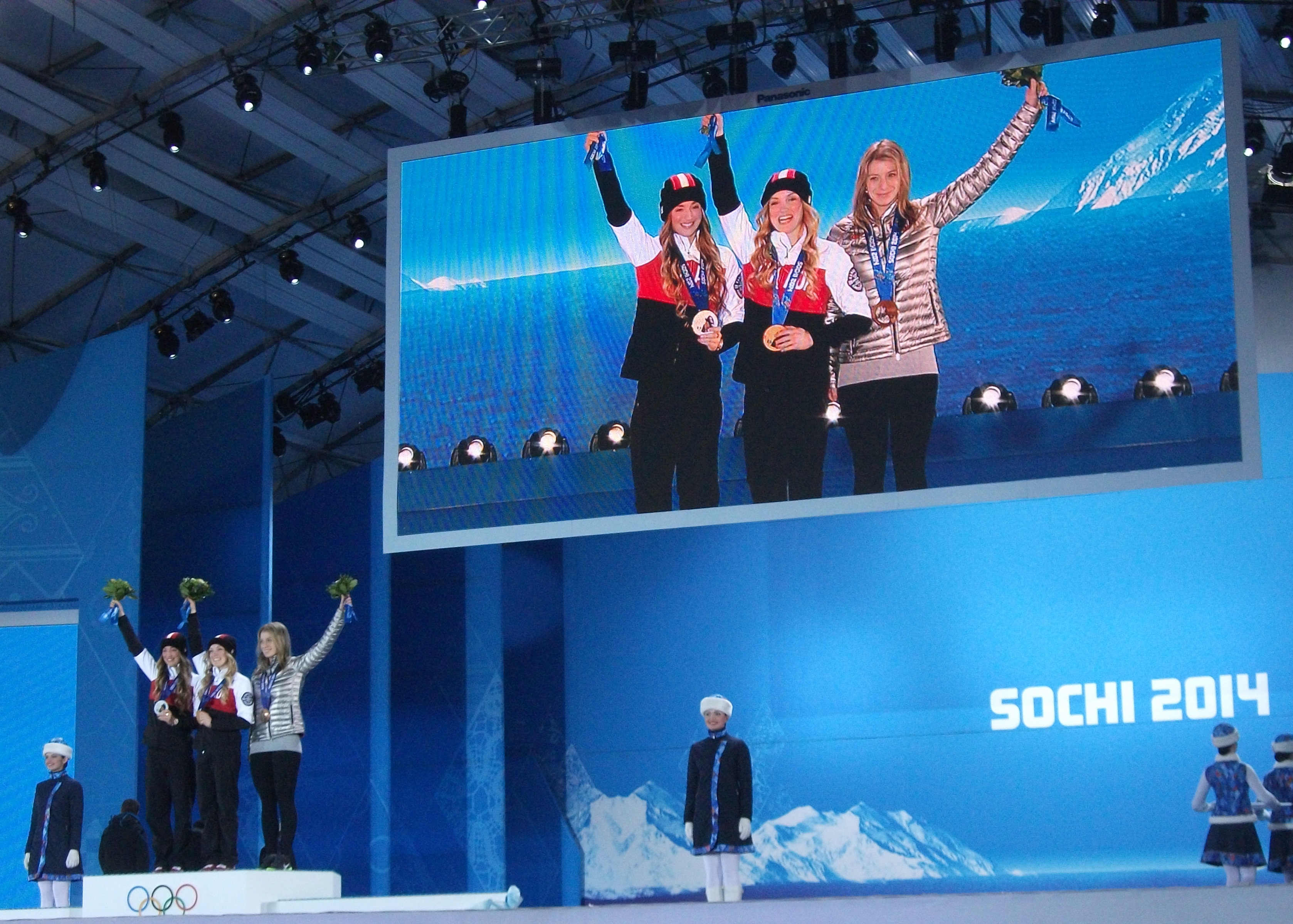 Winners at the 2014 Winter Olympics in freestyle skiing women's moguls during the medals ceremony. Medal Plaza of the Sochi Olympic park.